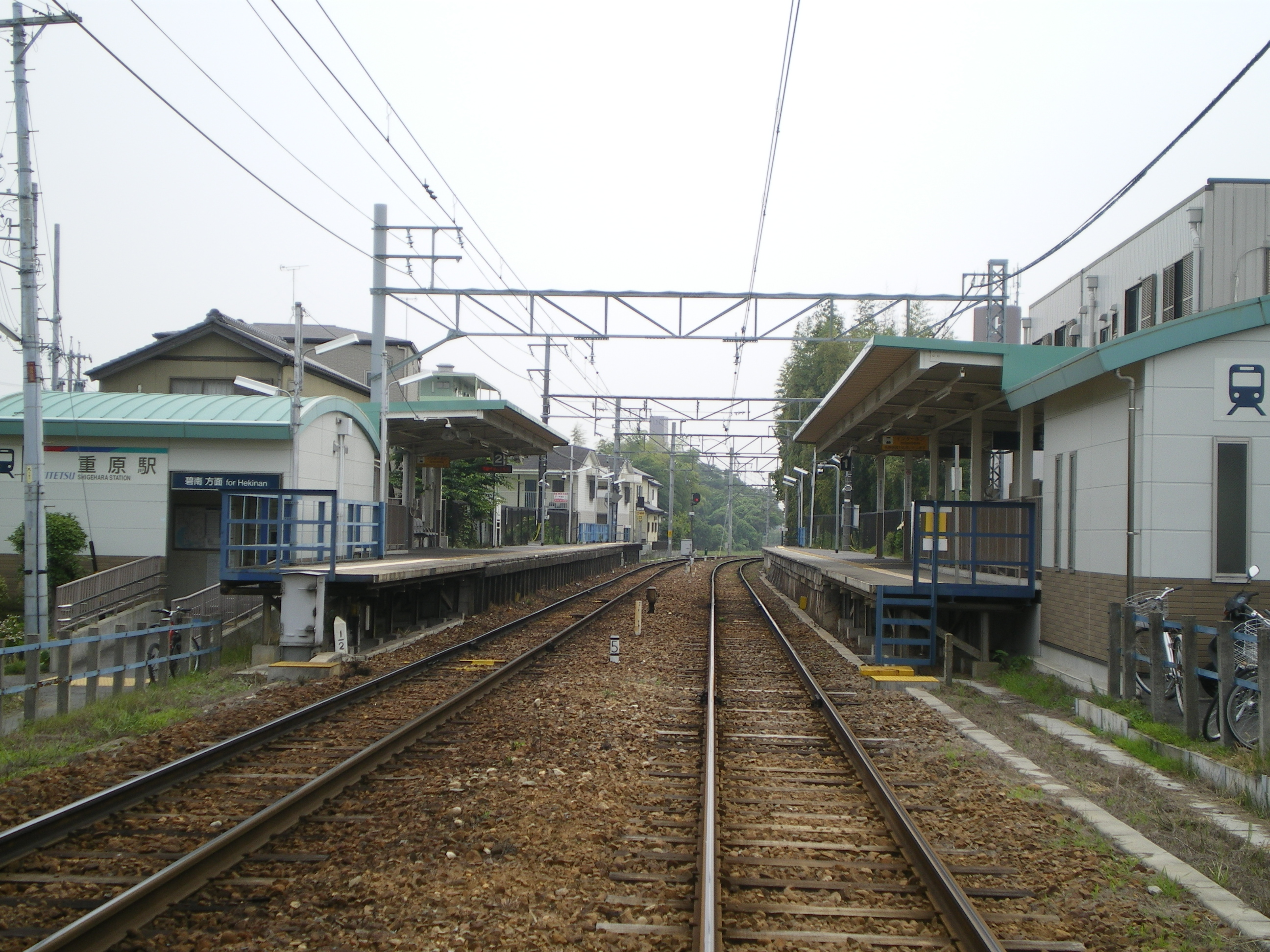 Nagoya Railroad Mikawa Line Shigehara Station Platform